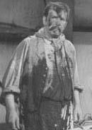 Fernando Campos- actor